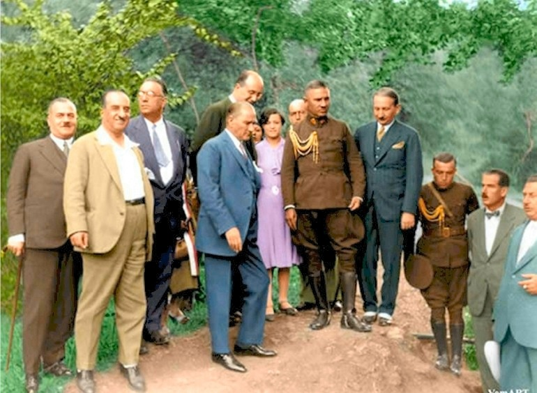 Mustafa Kemal Atatürk with his friends